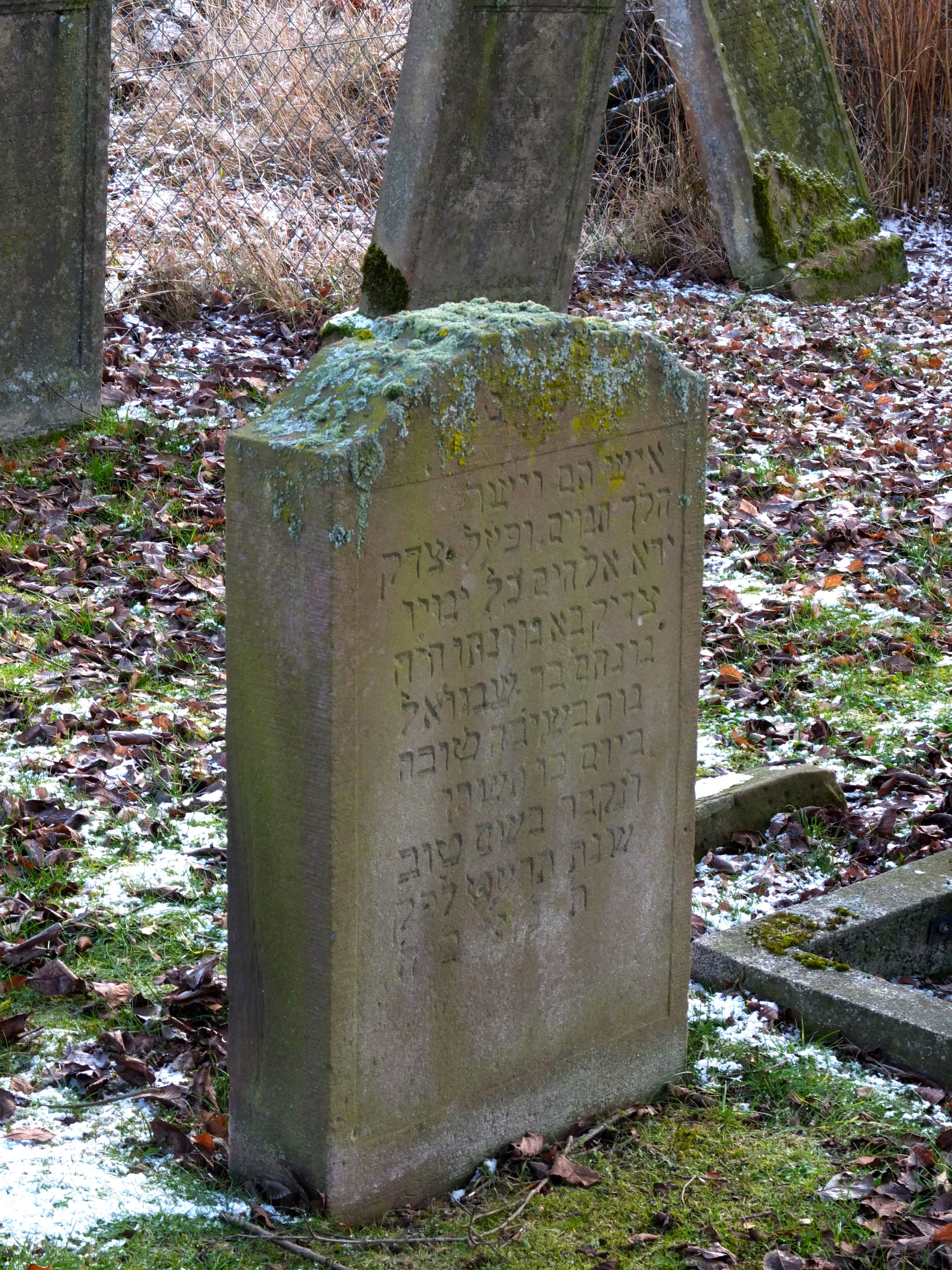 Grabstein auf dem jüdischen Friedhof von Schweinsberg (Stadtallendorf).